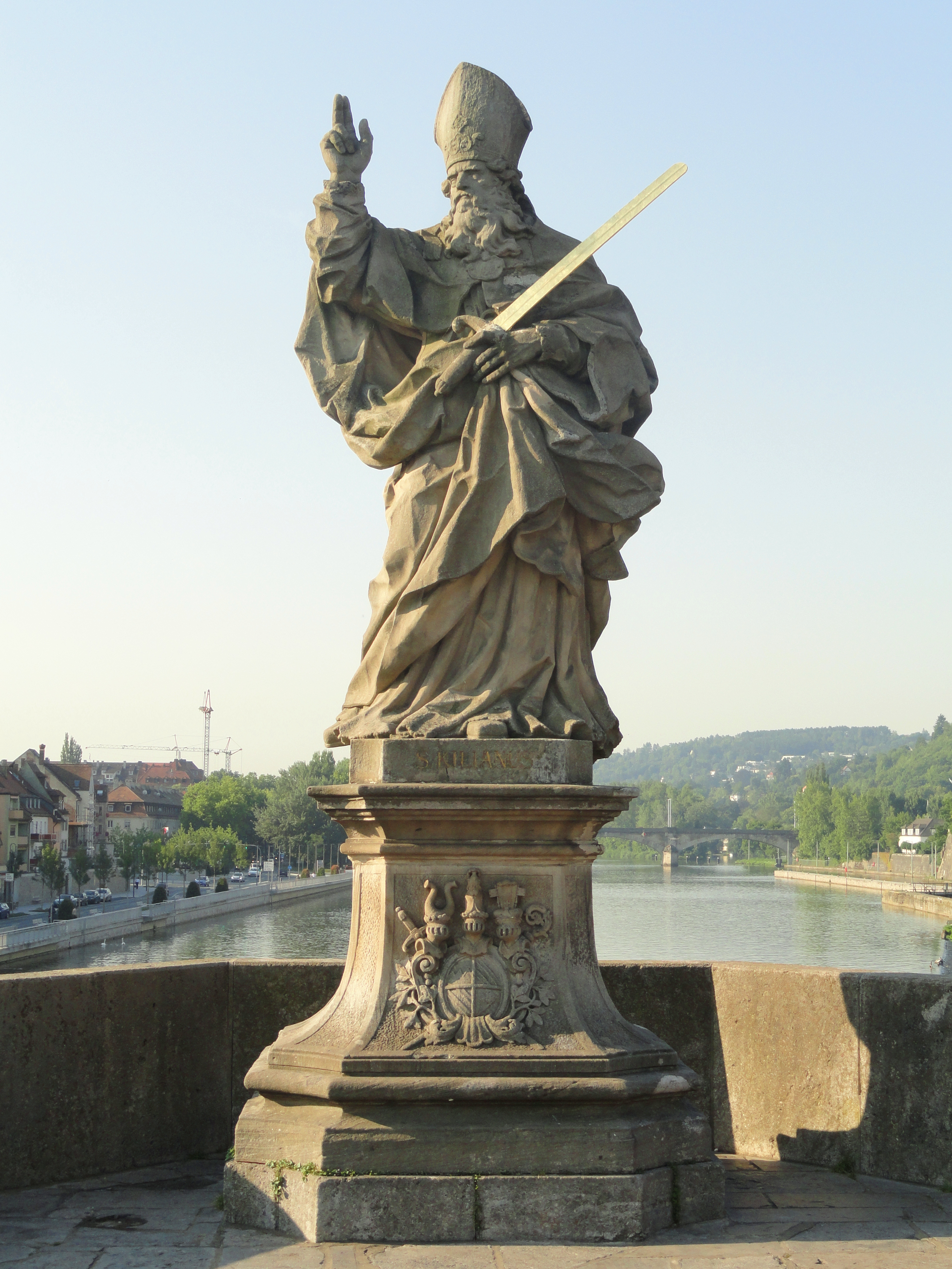 Statue on the Alte Mainbrücke in Würzburg, Germany.